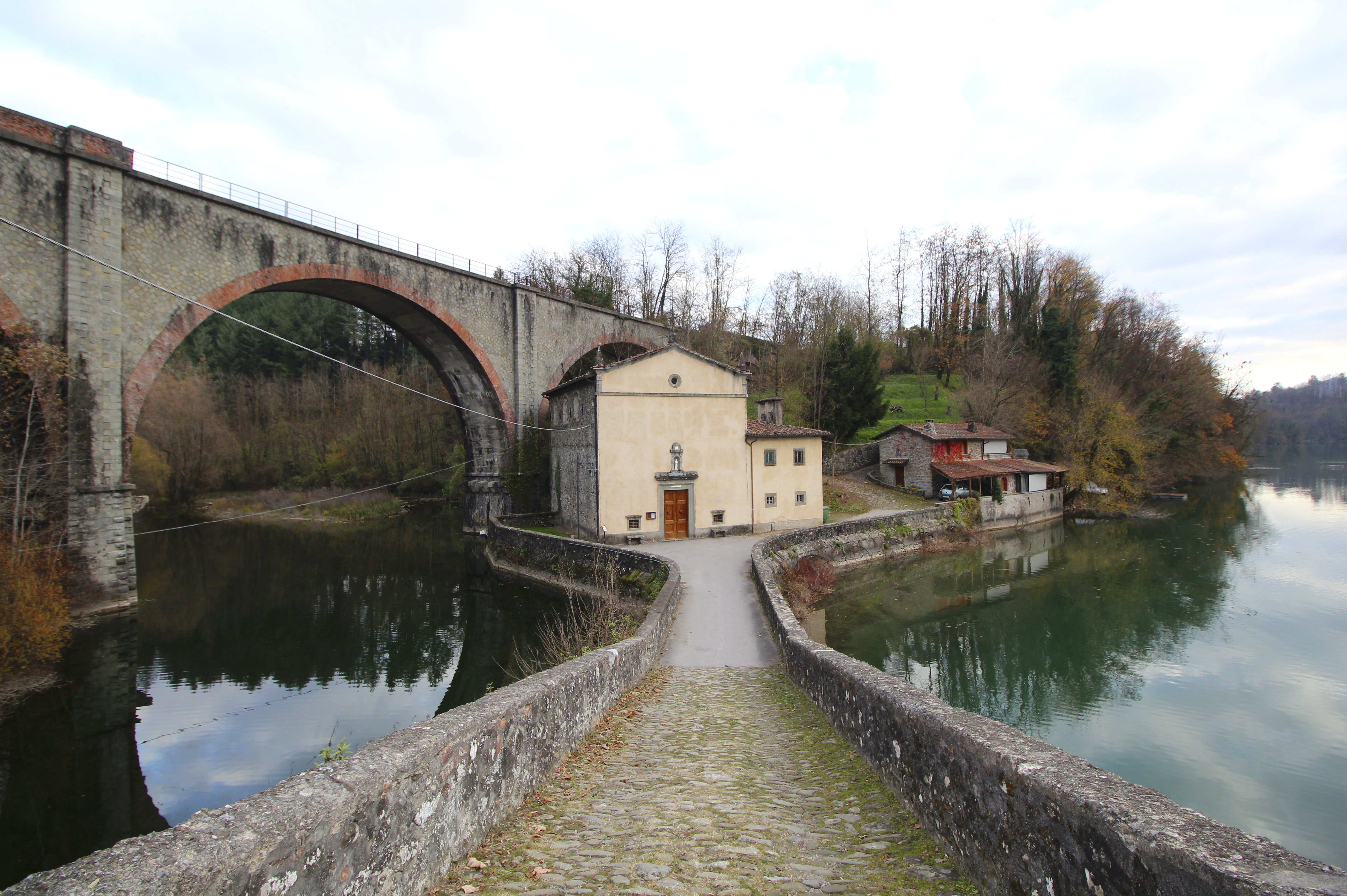 Church Madonna delle Grazie (Madonna del Ponte), Pontecosi, hamlet of Pieve Fosciana, Garfagnana, Province of Lucca, Tuscany, Italy